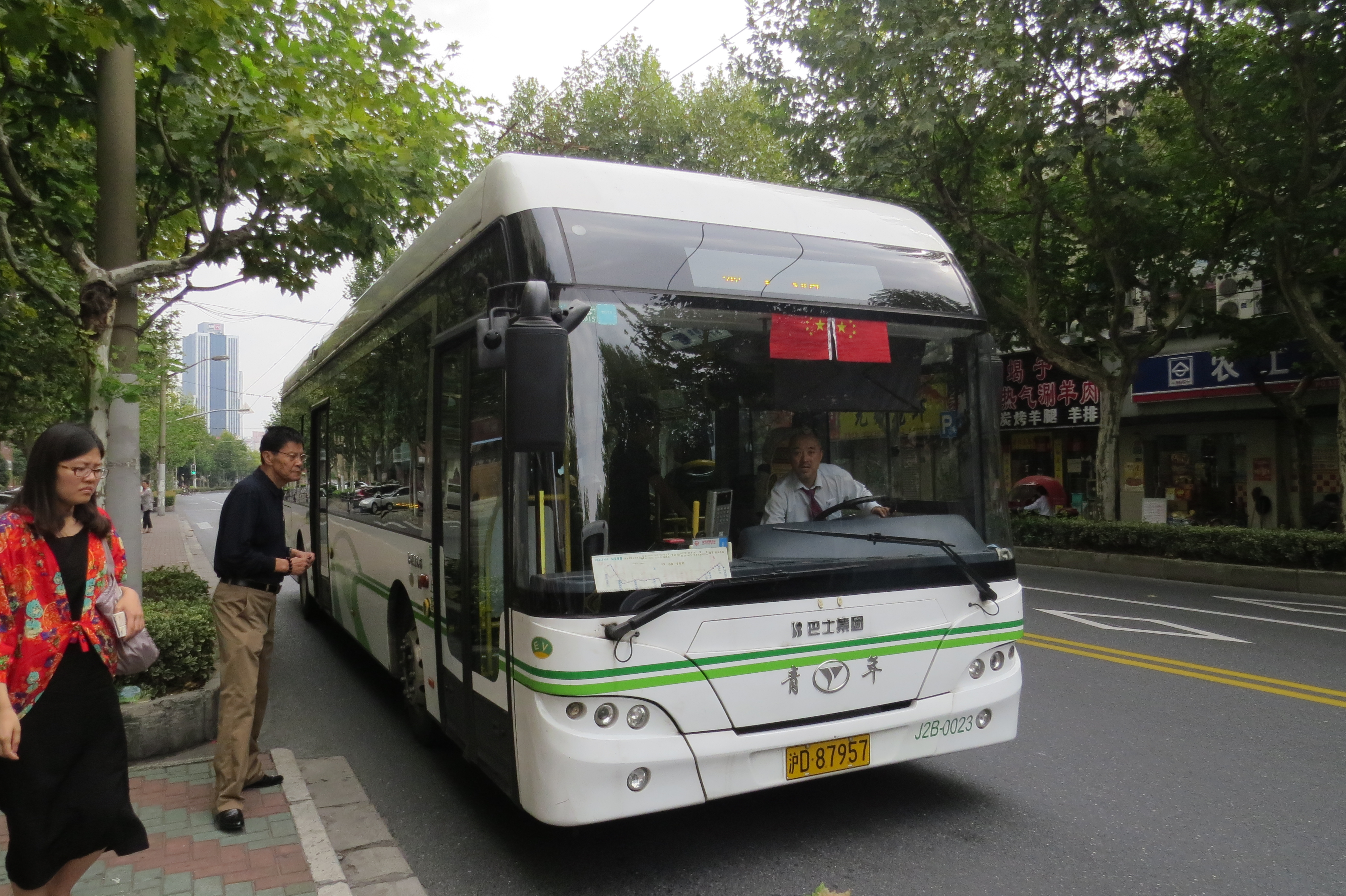 Familiar model for a guy from Beijing.